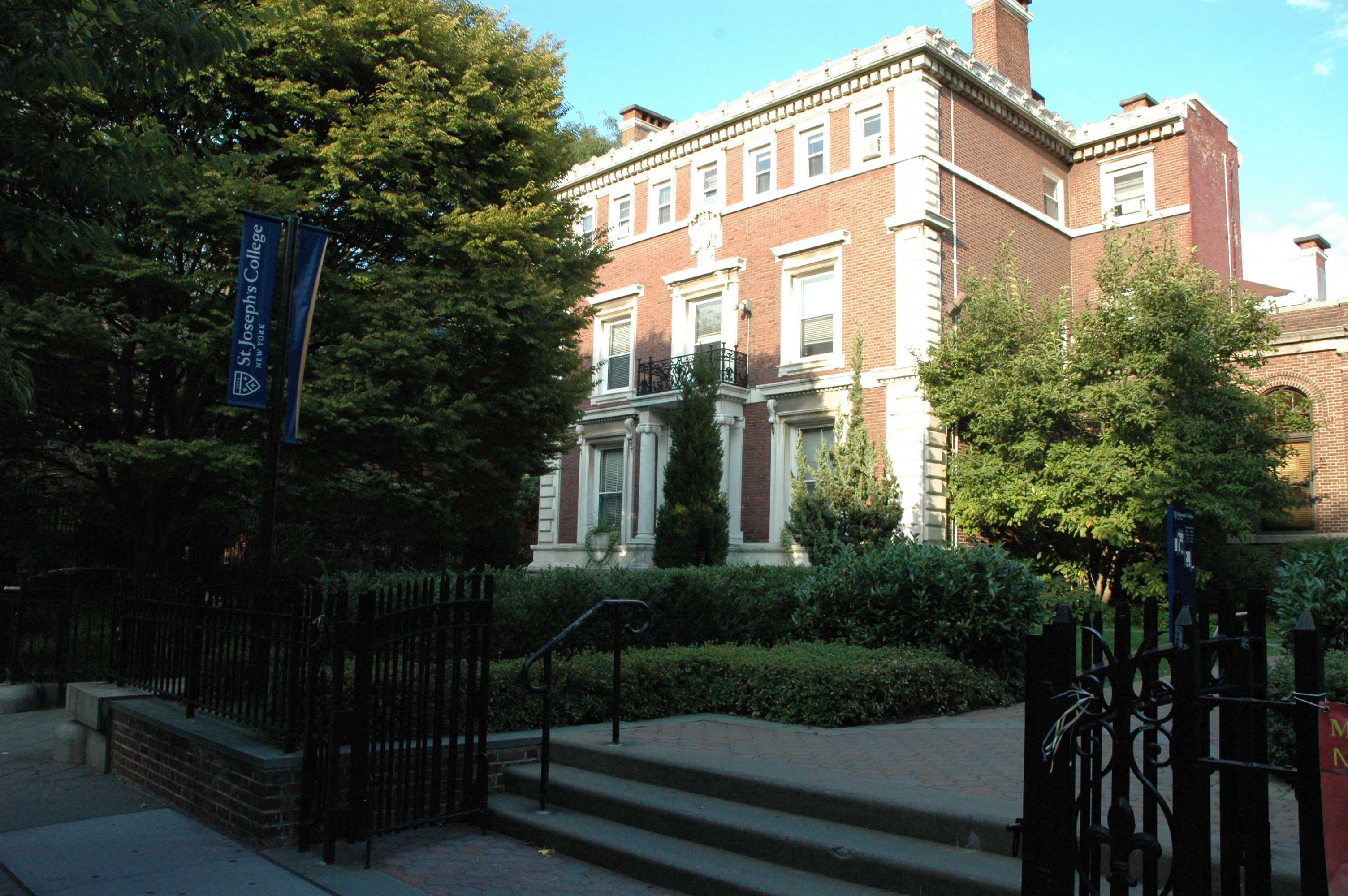 This photo is of Wikis Take Manhattan goal code J40, Saint Joseph's College, New York.